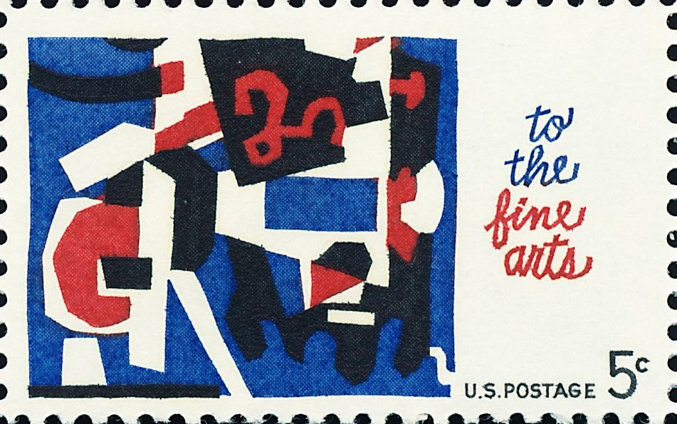 This is a US postage stamp issued in 1964 showing a lithograph by Stuart Davis.